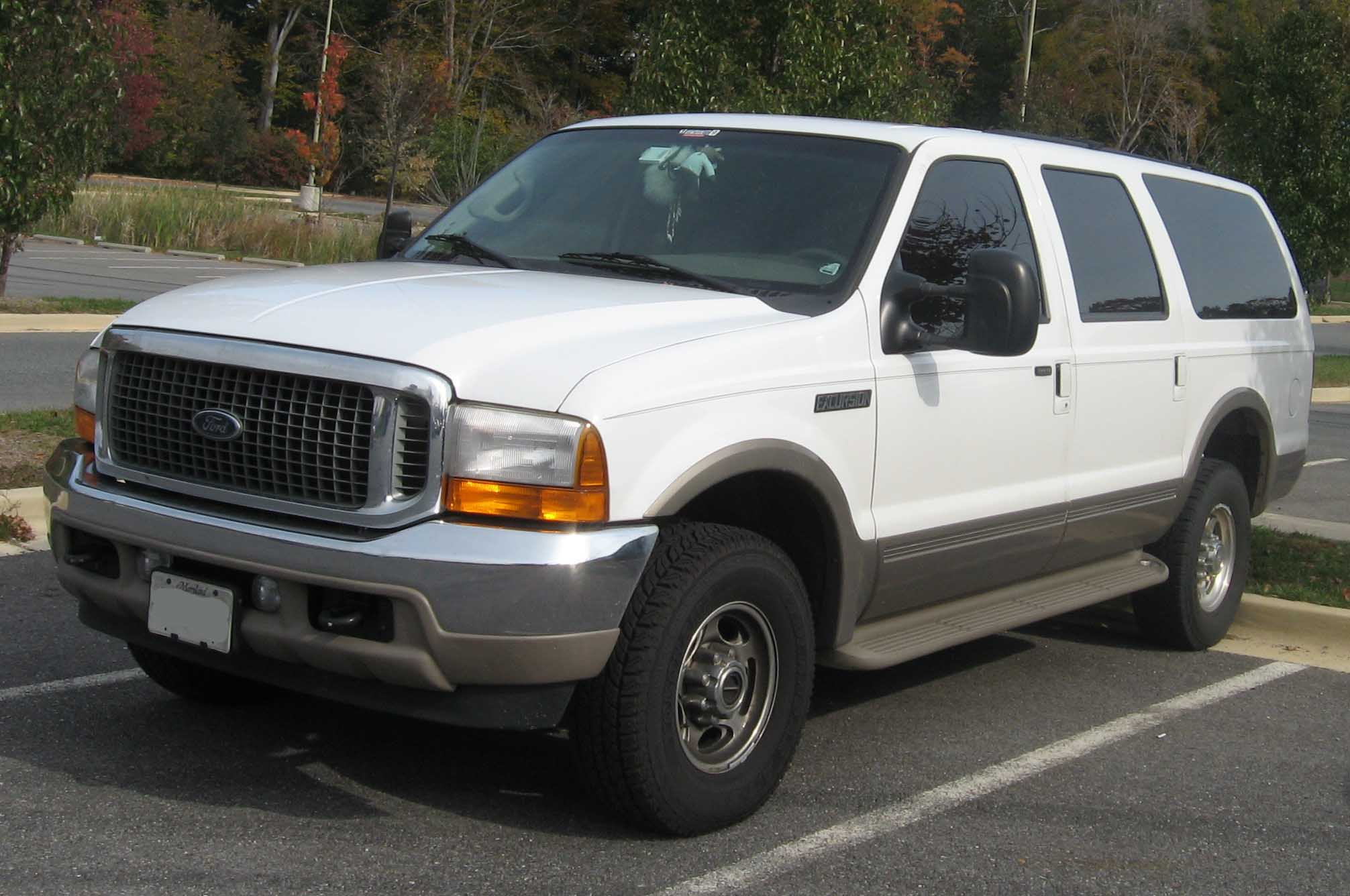 2000-2004 Ford Excursion photographed in Accokeek, Maryland, USA.